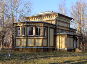 Театральный павильон в усадьбе Любимовка